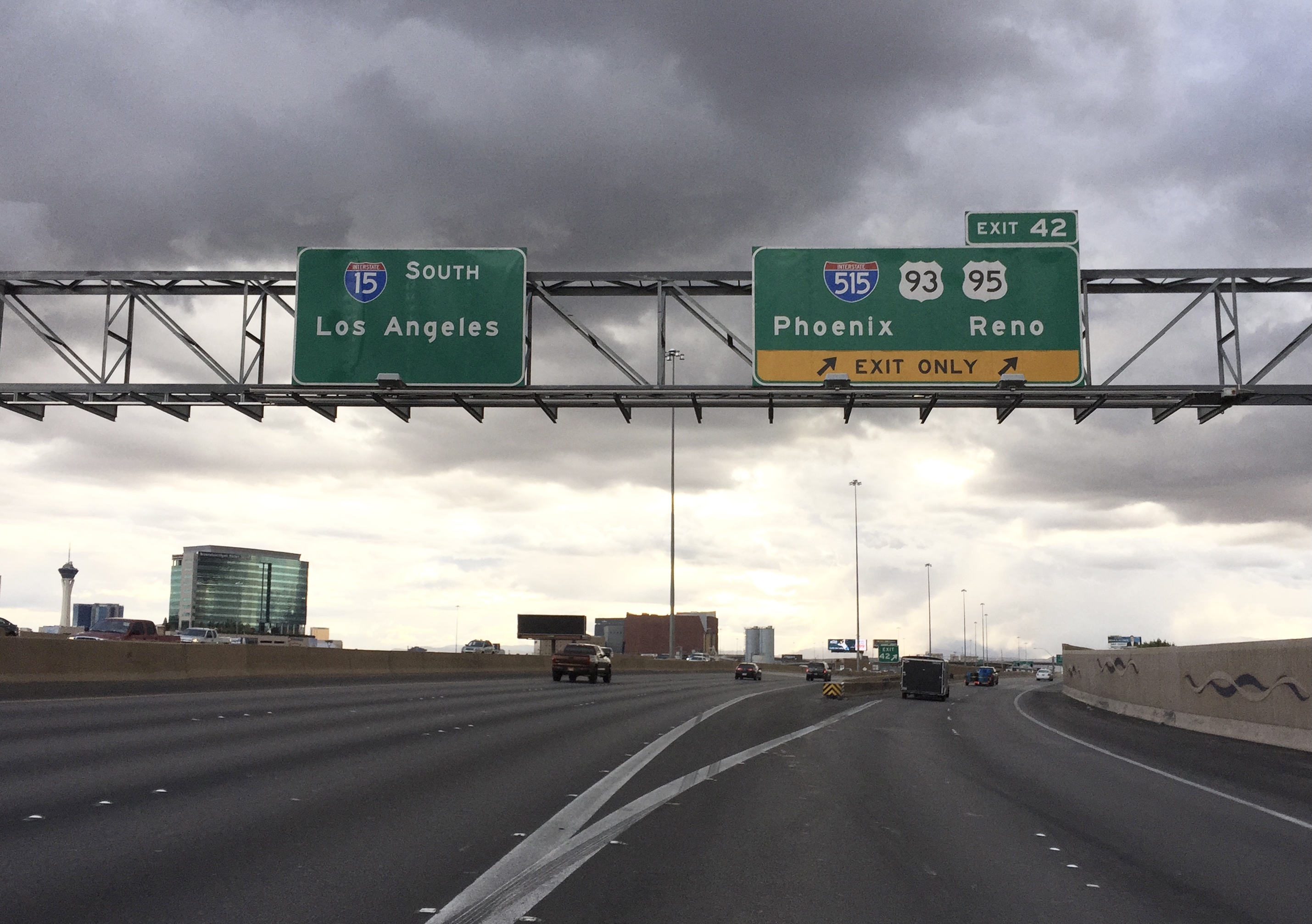 View south along Interstate 15 and U.S. Route 93 at Exit 42 (Interstate 515, U.S. Route 93, U.S. Route 95, Phoenix, Reno) in Las Vegas, Nevada